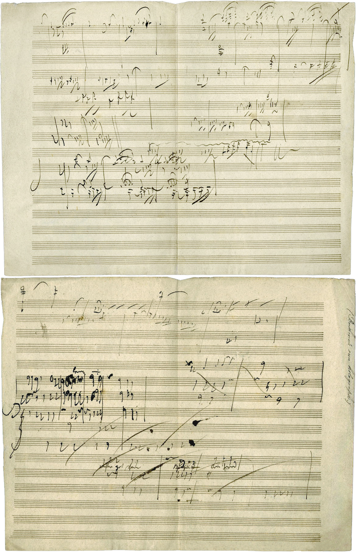 Piano Sonata in A Major, op. 101, Allegro: manuscript sketch in Beethoven's handwriting.